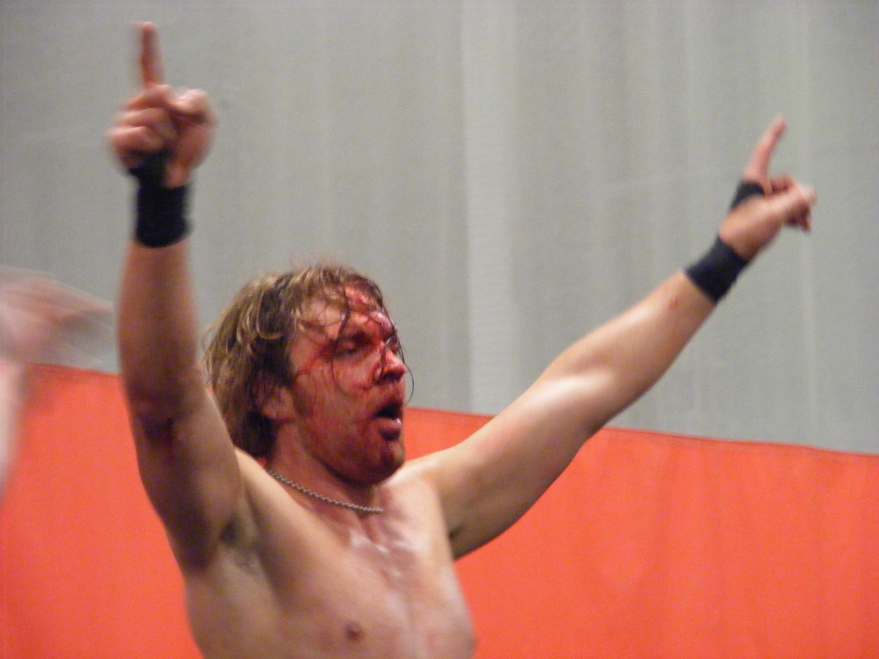 Jon Moxley at the "No Ropes Barbed Wire match" to decide the CZW World Heavyweight Championship in Tyngsboro, Massachusetts, on October 16, 2010. He defended it against Nick Gage.